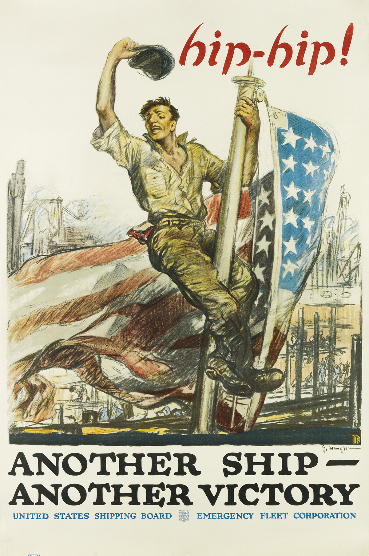 "Hip, Hip! Another Ship -- Another Victory." United States Shipping Board, Emergency Fleet Corporation.